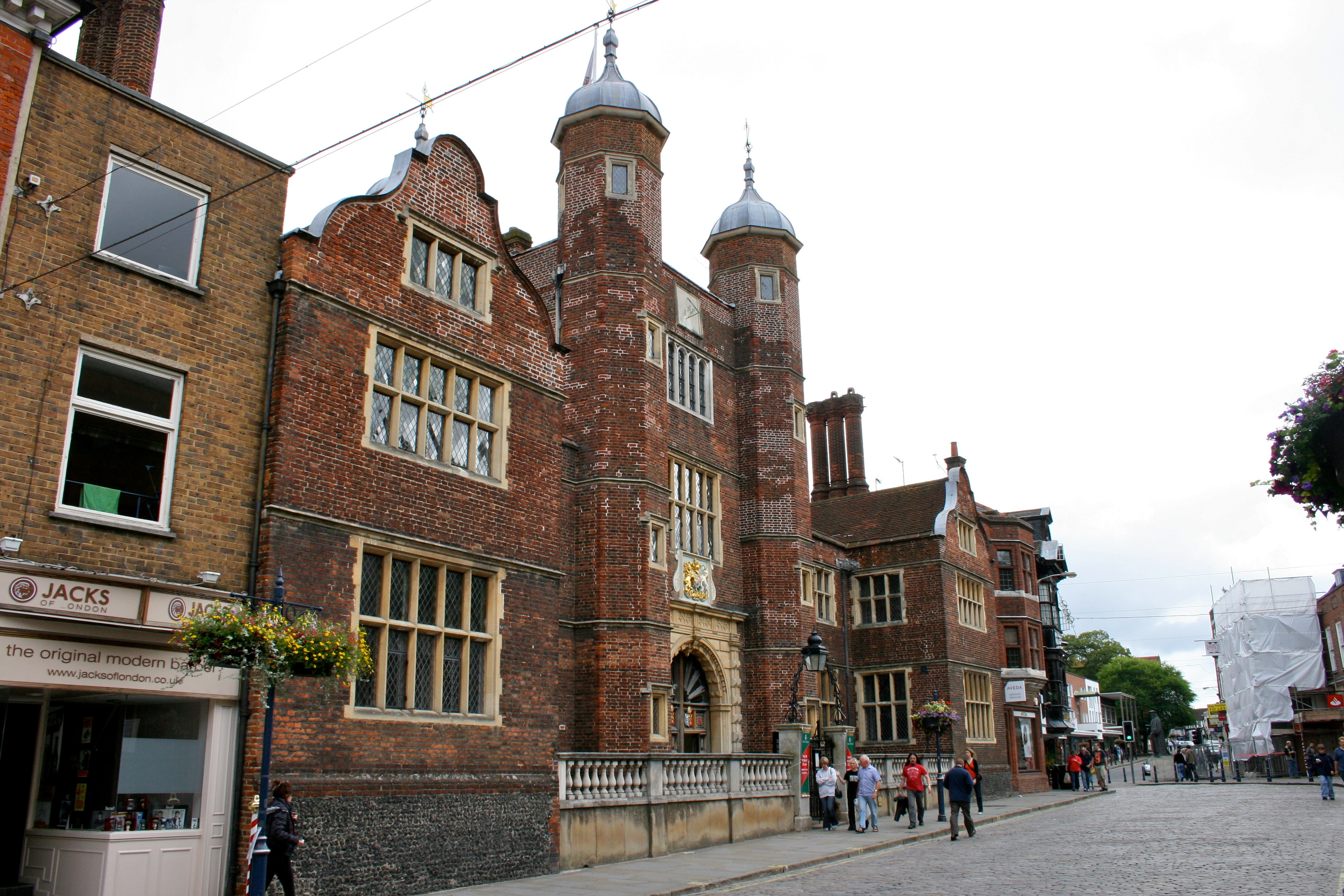 Abbot's Hospital, Guildford